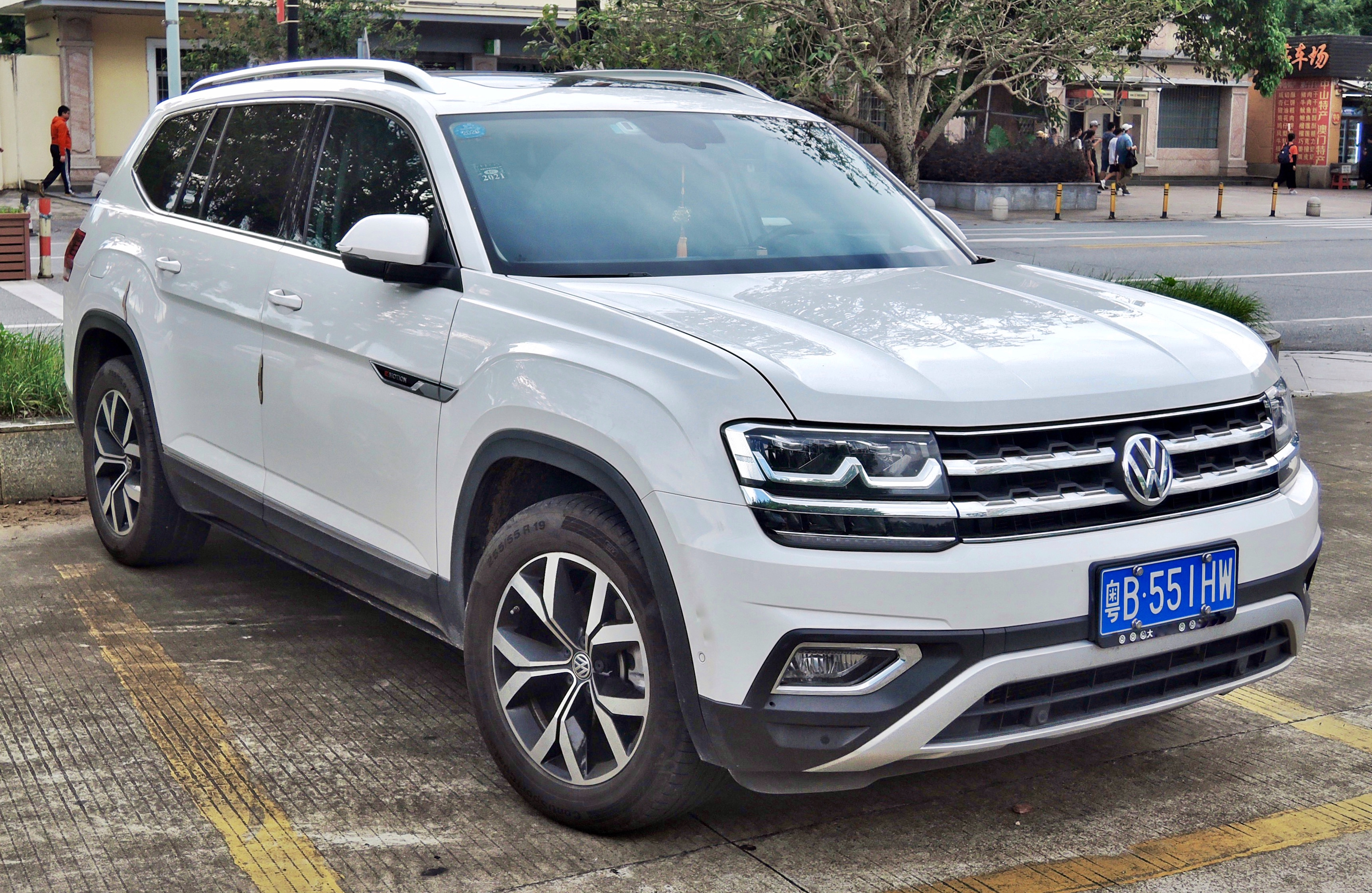 A 2018 SAIC-Volkswagen Teramont taken in Zhongshan, Guangdong province, China. 中文（中国大陆）: 一辆2018年的上海大众途昂，摄于中国广东省中山市。